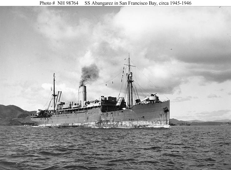 Photo #: NH 98764 SS Abangarez In San Francisco Bay, California, in late 1945 or early 1946. This United Fruit Company banana carrier was built in Ireland in 1909. Donation of Boatswain's Mate First Class Robert G. Tippins, USN (Retired), 2003. U.S. Naval Historical Center Photograph, "To the best of our knowledge, the pictures provided in the Online Library of Selected Images are all in the Public Domain, and can therefore be freely downloaded and used for any purpose."